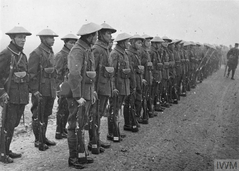 THE FRENCH ARMY ON THE WESTERN FRONT, 1914-1918 Company of Vietnamese troops parading for ceremonial investiture with decorations at Etampes.